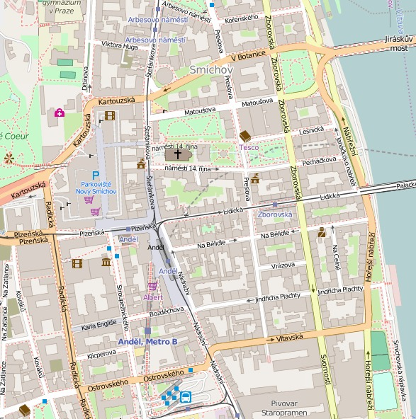 Prague-Smíchov, the Small Smíchov Beltway. This map may be incomplete, and may contain errors. Don't rely solely on it for navigation.